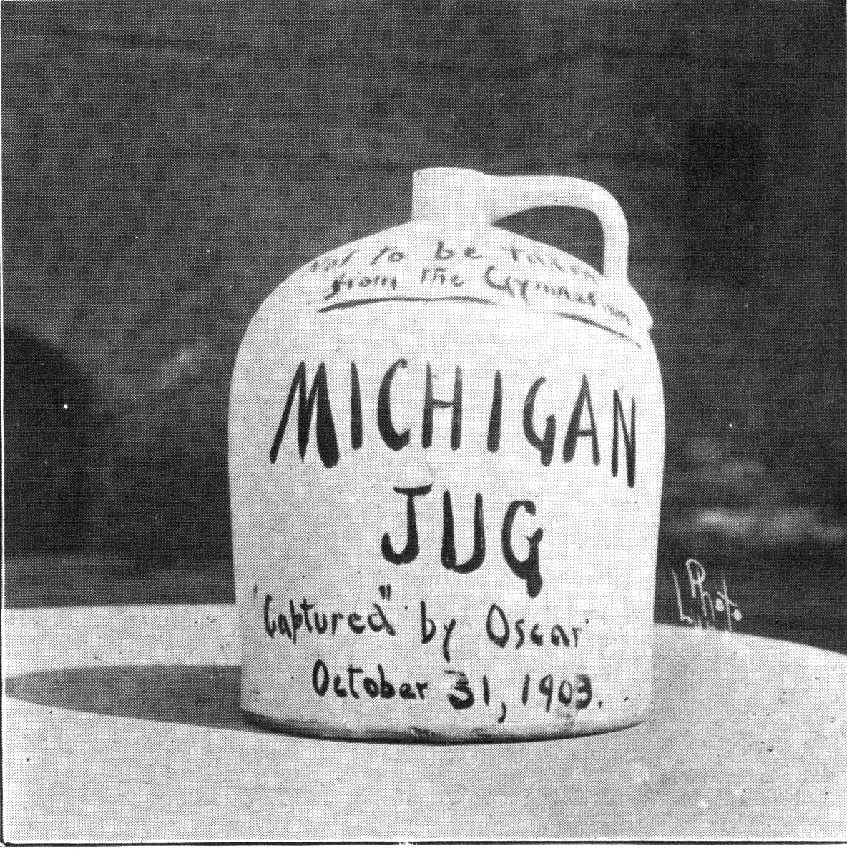 Photograph of Little Brown Jug published in the 1910 Michiganensian, page 229. The page bore the heading, "The Big White Jug," in reference to the fact that the actual jug was neither little nor brown.